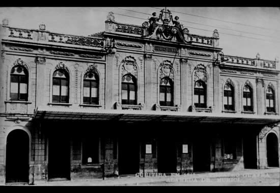 Antigo Theatro Guayra em 1915 na Rua Dr. Muricy - Curitiba - PR